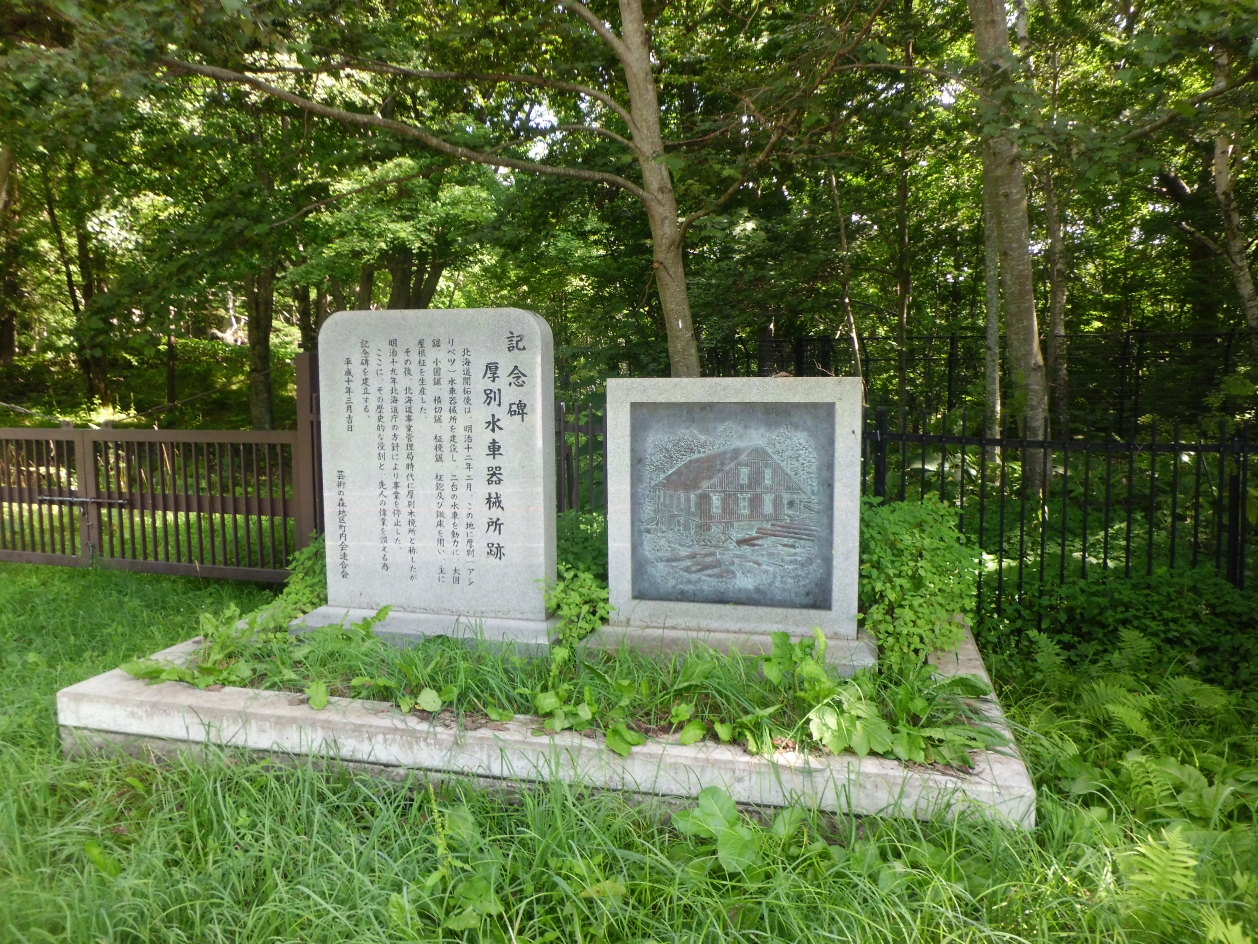 Remains of Ashiribetsu Watermill